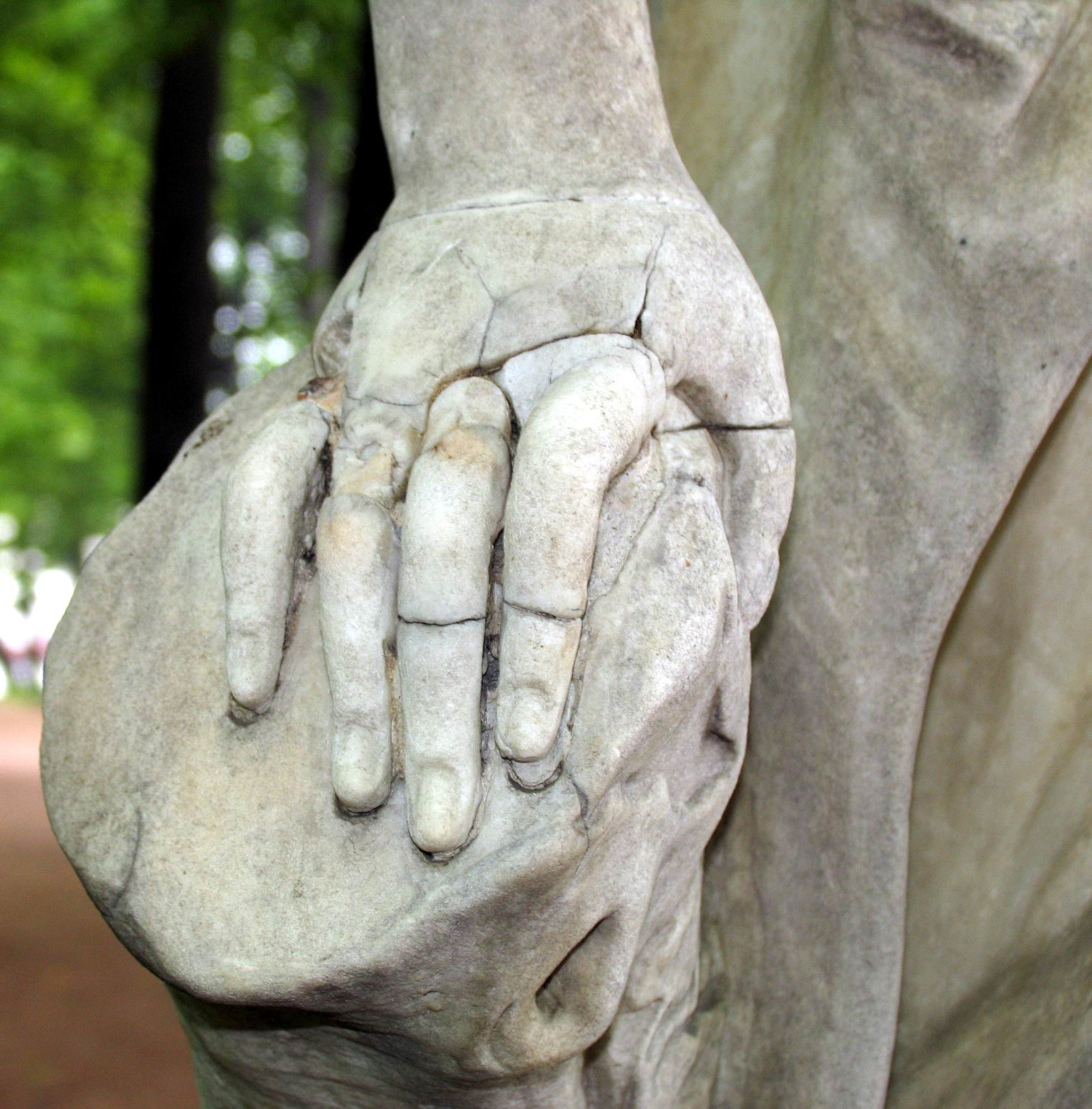 Кисть руки статуи "Минерва" до реставрации. Фото 2006 года